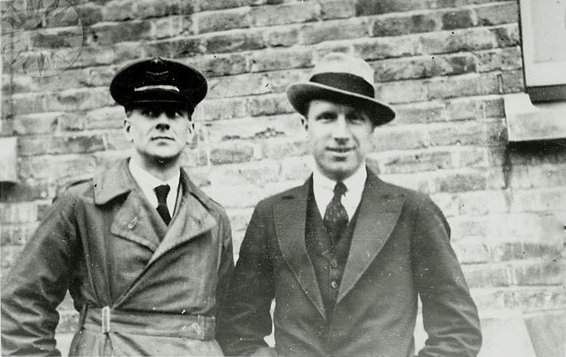 Caption adhered to photo reverse, "PILOT AND NAVIGATOR OF THE VICKERS VIMY ROLLS. THE GIANT ENTR INTO THE TRANS-ATLANTIC FLIGHT. From right to left: Lieut Arthur W. Brown (Sir Arthur Whitten Brown), navigator and Capt. J. Alcock, pilot of the Vickers Vimy Rolls biplane which is now being assembled at St. John's Newfoundland for he trans Atlanic flight. [May 28, 1919]". Smithsonian 2002-3054